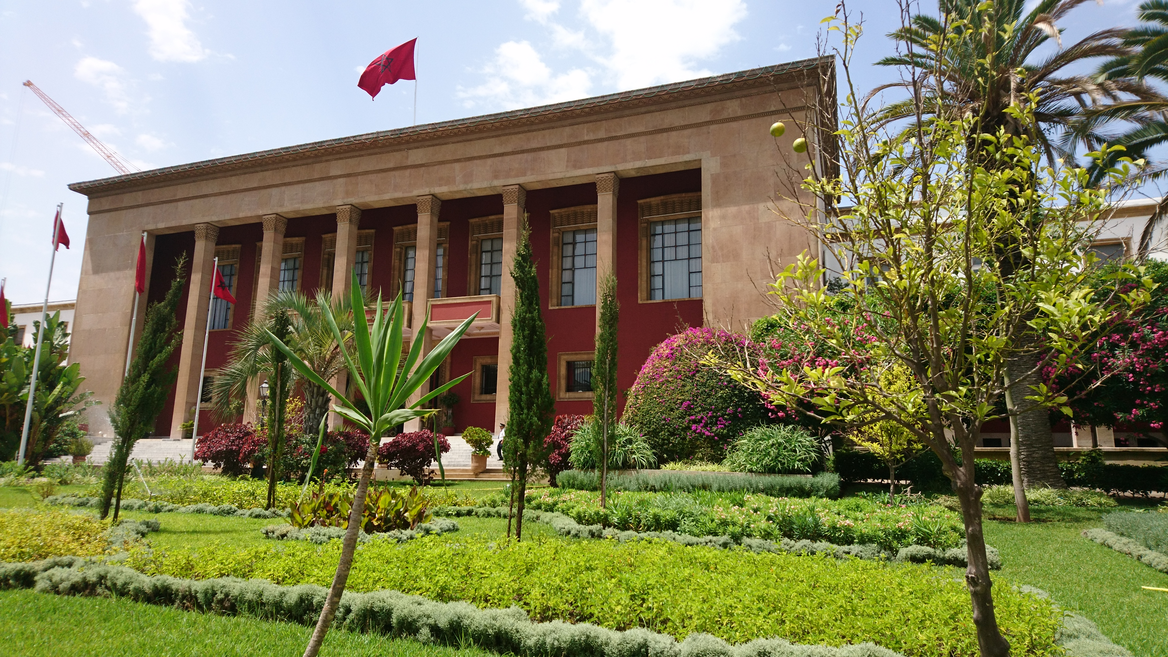 Parliament of Morocco